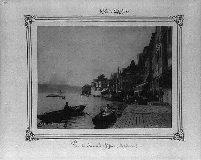 The port of Rumeli Hisarı between 1880 and 1893